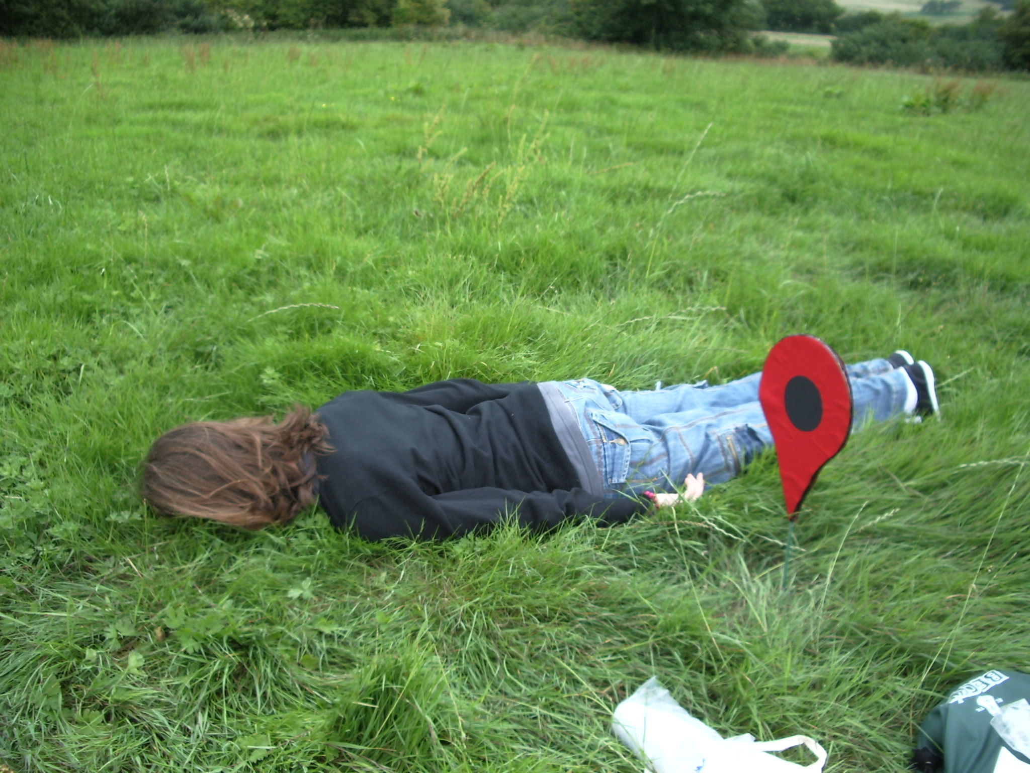 for more information.